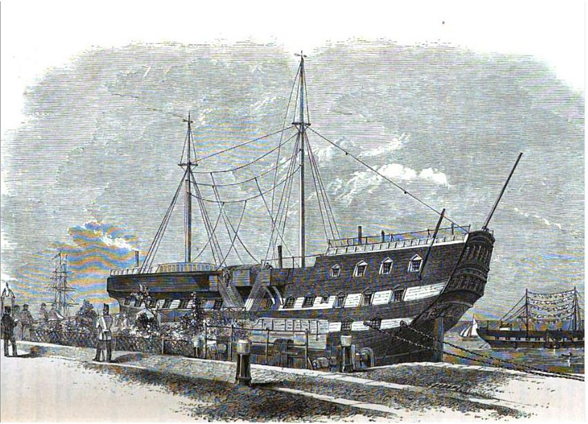 HMS Warrior as a prison ship. The image caption is, "The 'Warrior' hulk with the 'Sulphur' washing-ship in the distance."